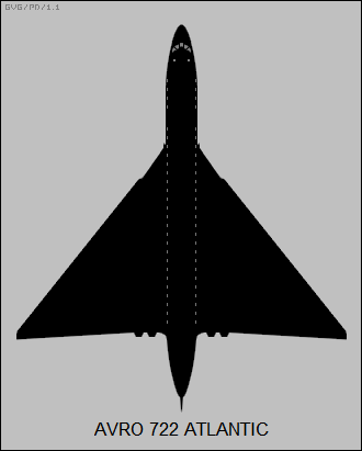 Plan-view silhouette of the Avro 722 Atlantic airliner project